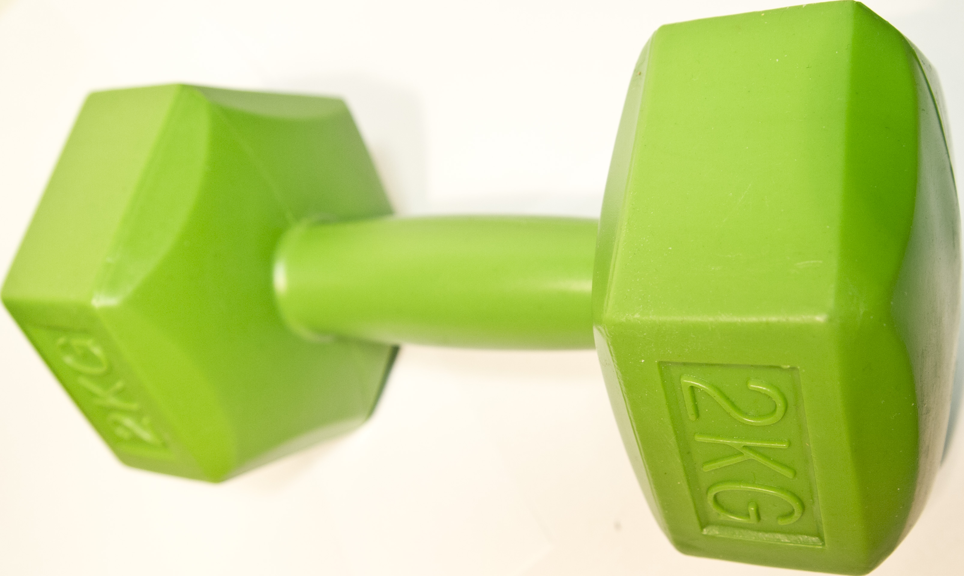 Green dumbbell of mass 2 kg.